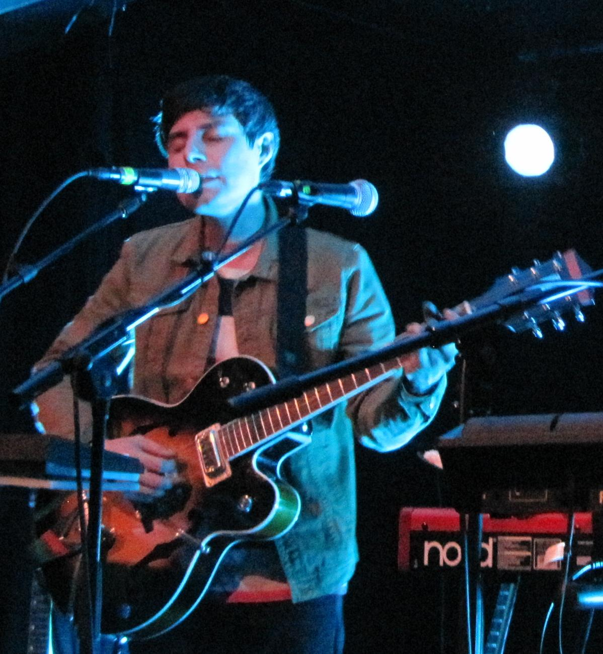 Ryan Karazija, singer of Audrye Sessions and Low Roar check usage